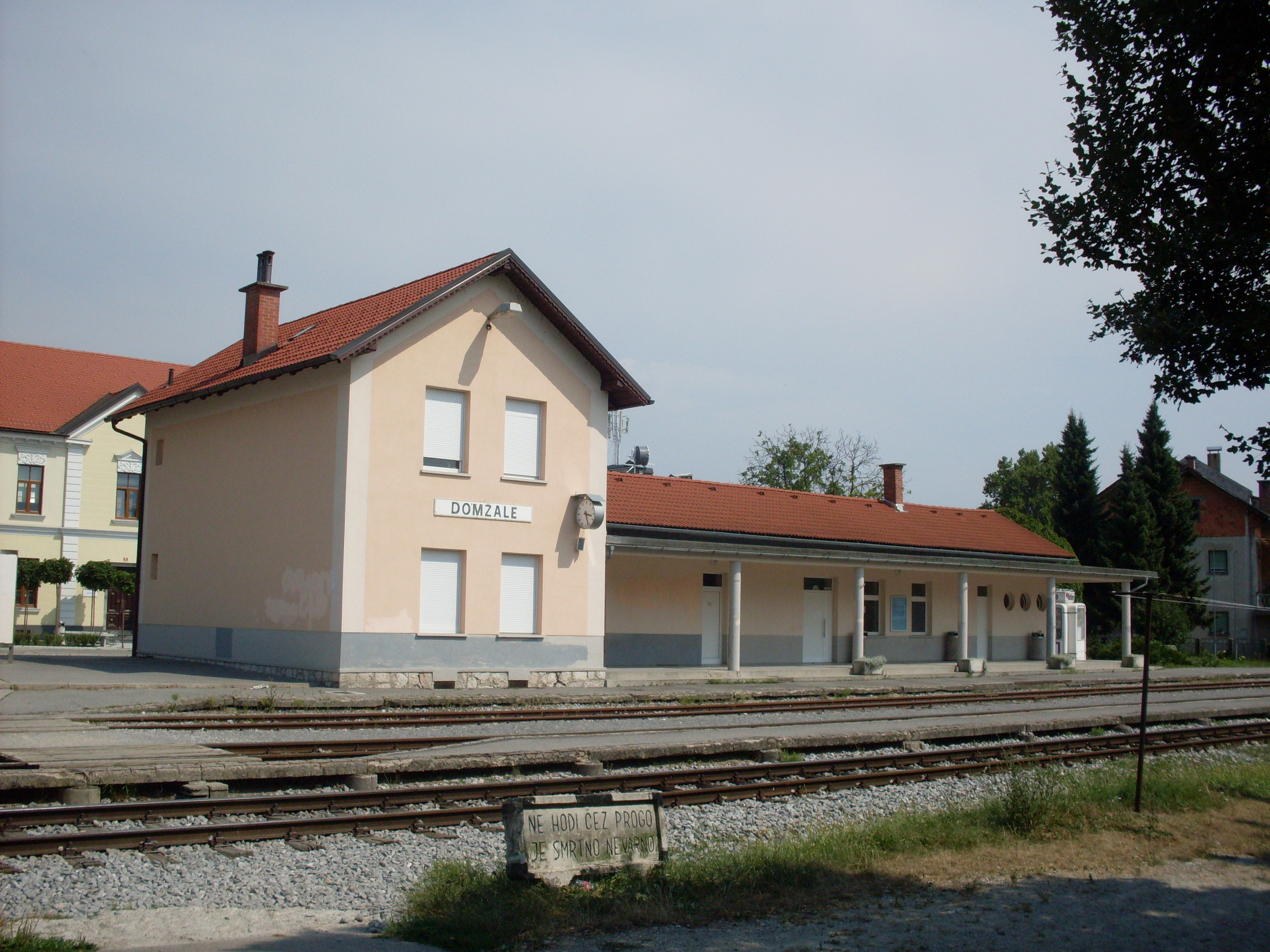 Train station in Domžale, Slovenia